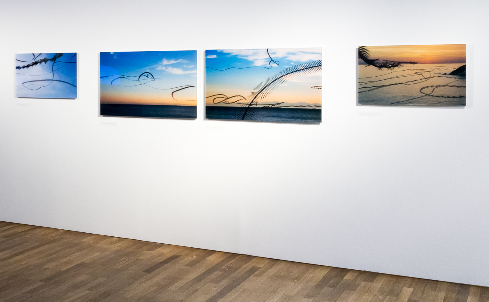 Pictures from the special exhibition "AIRLINES · Bird Tracks in the Air · Iskiographies by Lothar Schiffler" in the Museum of Man and Nature, Nymphenburg Palace, 2016. Iskiographies shown from left to right: AIRLINES XIV-3 · Möwen · Nähe Petersplatz · Rom · 2014 AIRLINES XIV-1 · Möwe vor der Silhouette von Korsika · Pomonte · Elba · 2014 AIRLINES XIV-9 · Möwen vor der Silhouette von Korsika · Pomonte · Elba · 2014 AIRLINES XIV-10 · Möwen in der Bucht von Pomonte · Elba · 2014